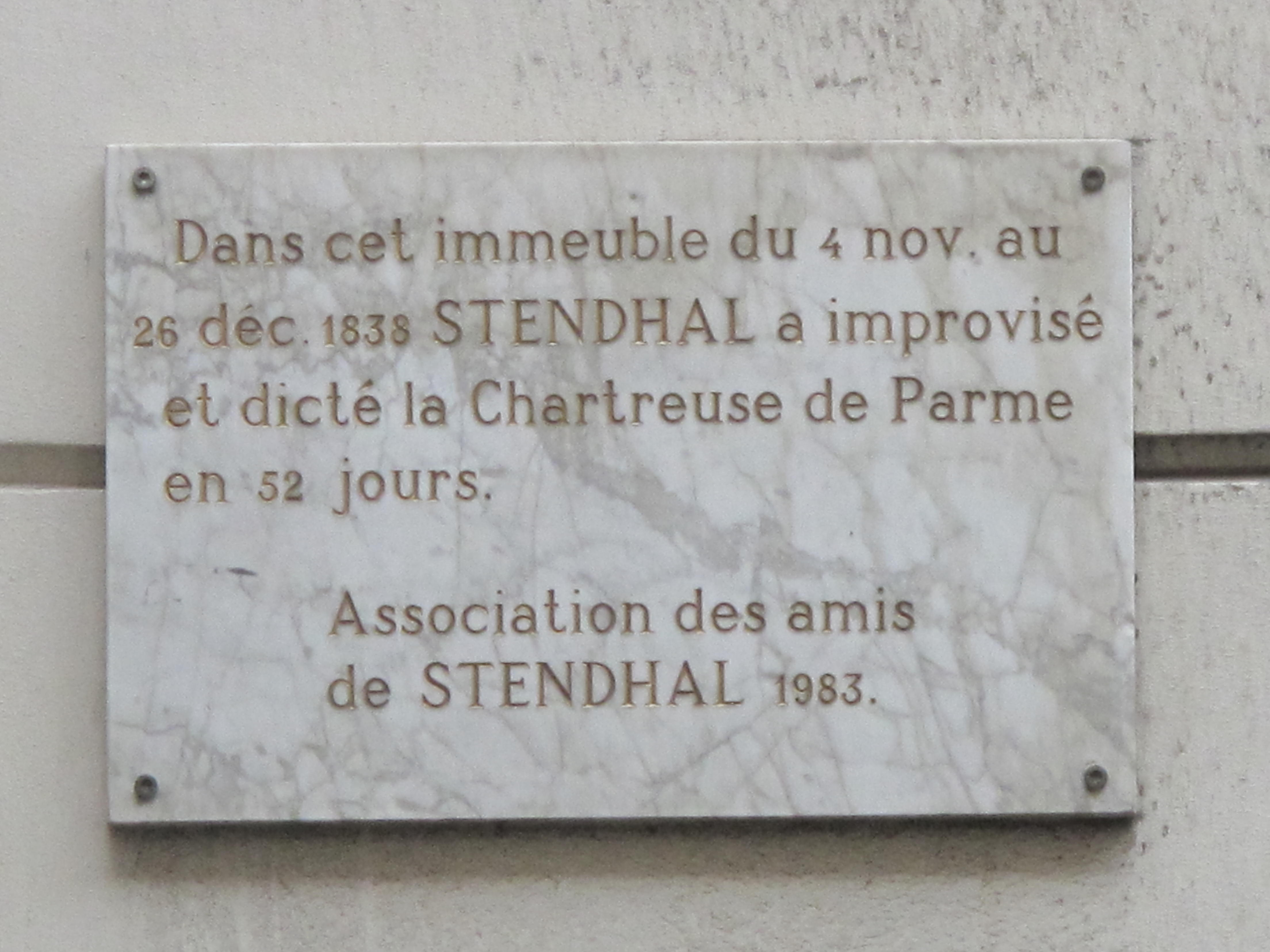 Building where Stendhal dictated "la Chartreuse de Parme" in 1839 : 8, rue de Caumartin, 9th arrond.